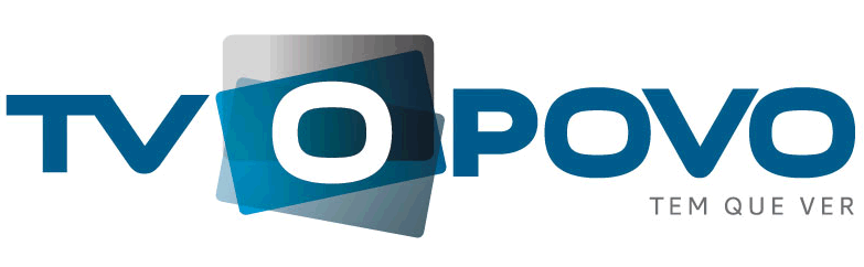 Logo of TV O Povo, a television channel of Brazil.